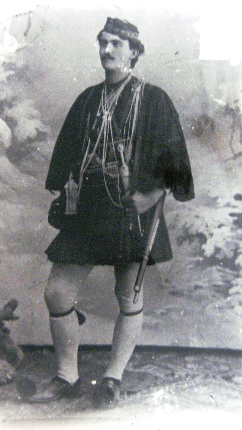 Greek guerilla captain Stefos Grigoriou from Bitola. (Bitola, 1908)